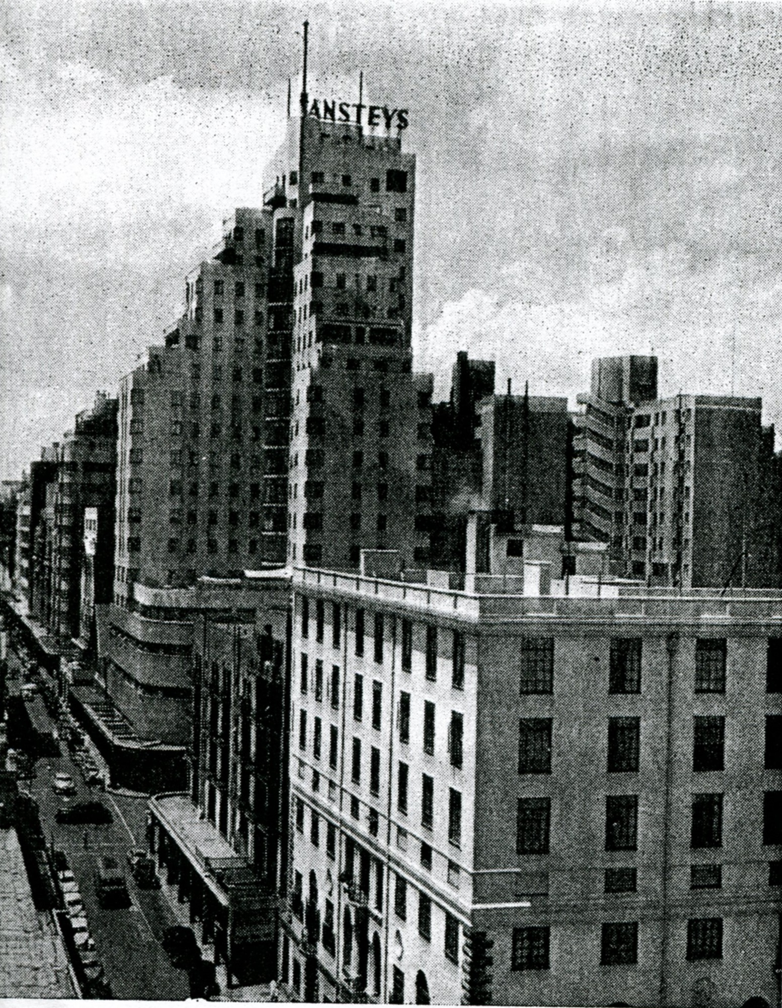 The Ansteys Building is an art deco building in the City of Johannesburg. It was built in 1935 and designed by Emley and Wiliamson. these pictures and documents were donated by the Johannesburg Heritage Foundation through the Joburgpedia project for use in Wikimedia and its sister projects